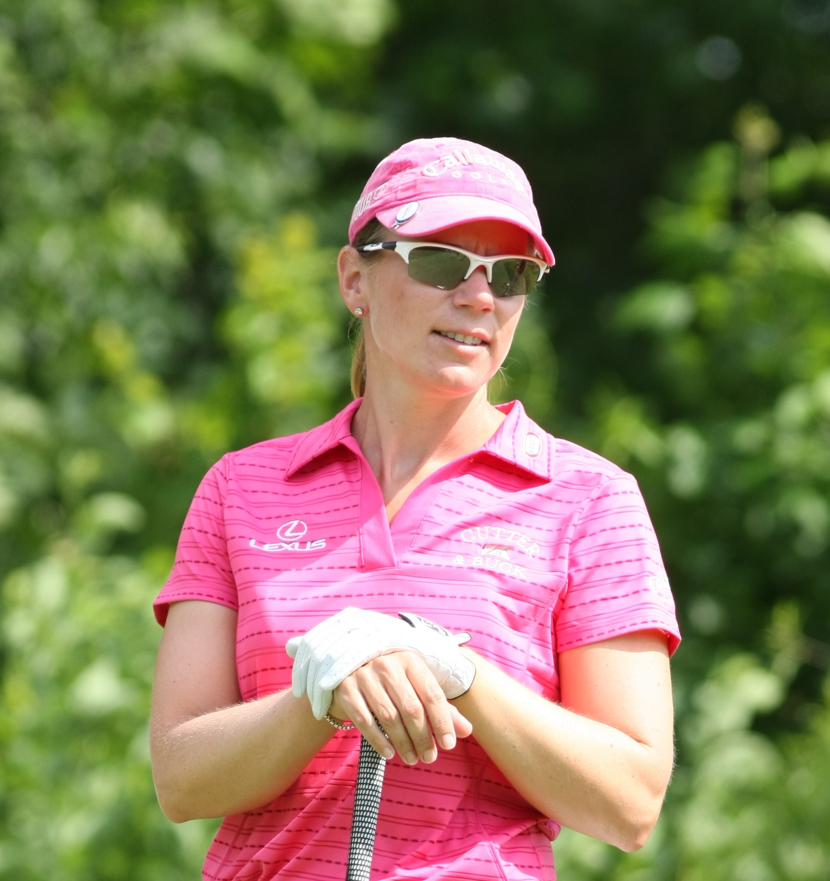 Annika Sörenstam (SWE) during LPGA Championship 2008 in Havre de Grace, Maryland HAVRE DE GRACE, MD - JUNE 03: Annika Sörenstam (SWE) during pro-am before 2008 LPGA Championship held at Bulle Rock Golf Course, on June 3, 2008 in Havre de Grace, Maryland. (Photo by Keith Allison)